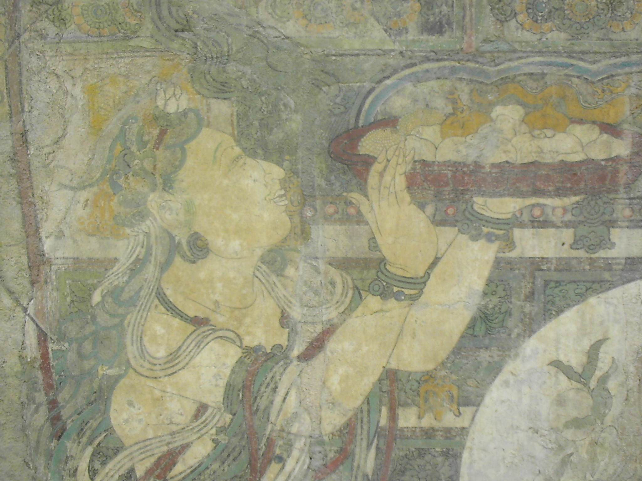 The Pure Land of Bhaisajyaguru, i.e. the Buddha of Medicine, a painting with a water-based pigment over a foundation of clay mixed with straw, dated to mid Yuan Dynasty (1271–1368) of China. The whole of this large wall mural was given to the Metropolitan Museum of Art as a gift by Arthur M. Sackler, in honor of his parents, Isaac and Sophie, in 1965.